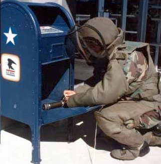 A picture of a FBI officer in a bomb suit conducting a training mission